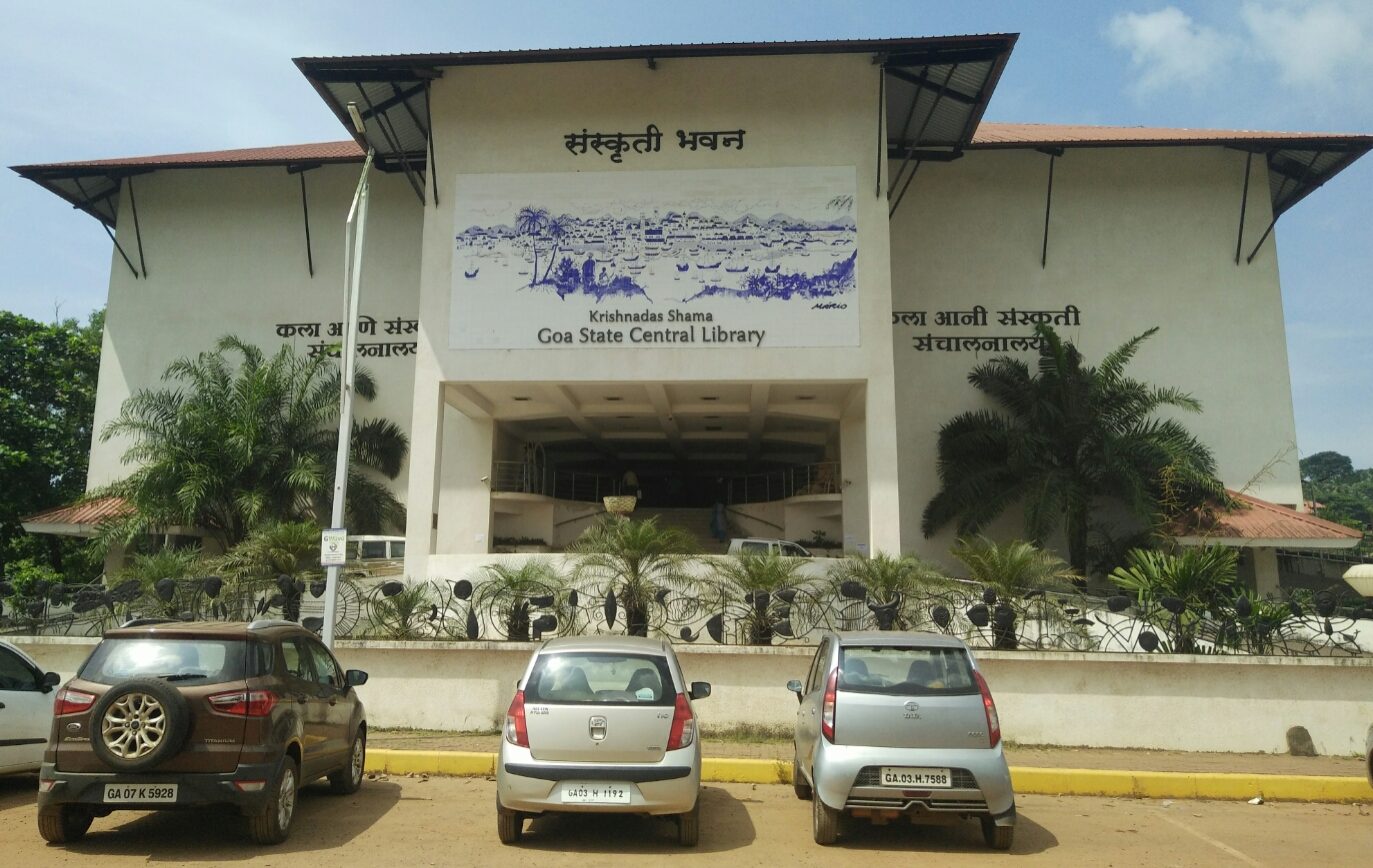 Central library have all kinds of books which anybody can get easily.